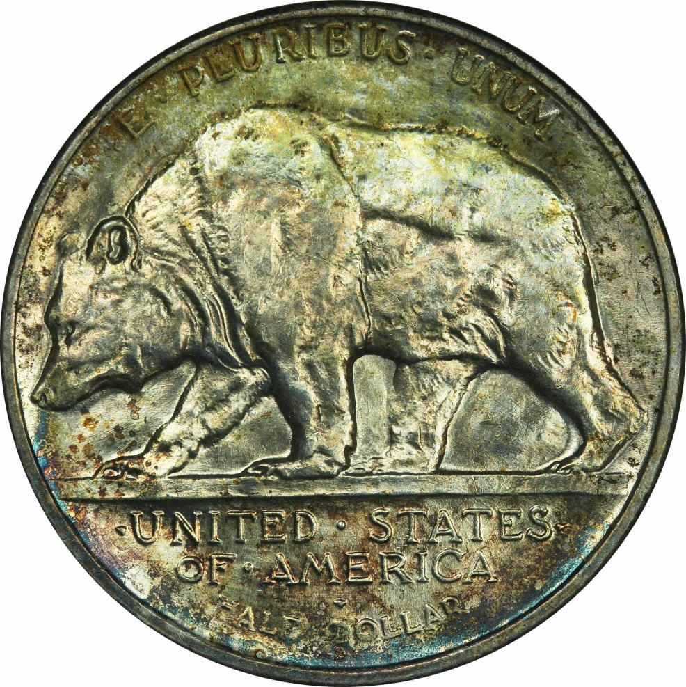 Reverse of 1925 California Diamond Jubilee half dollar